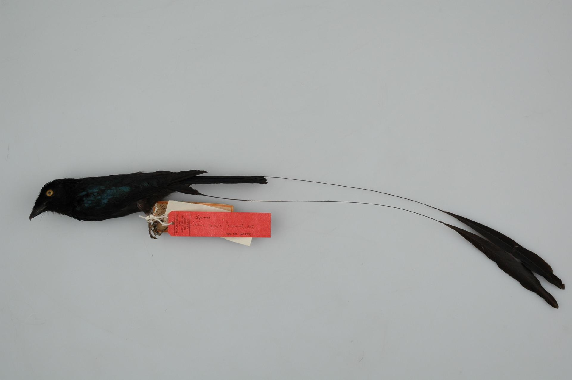 Dicrurus remifer Temminck, 1823